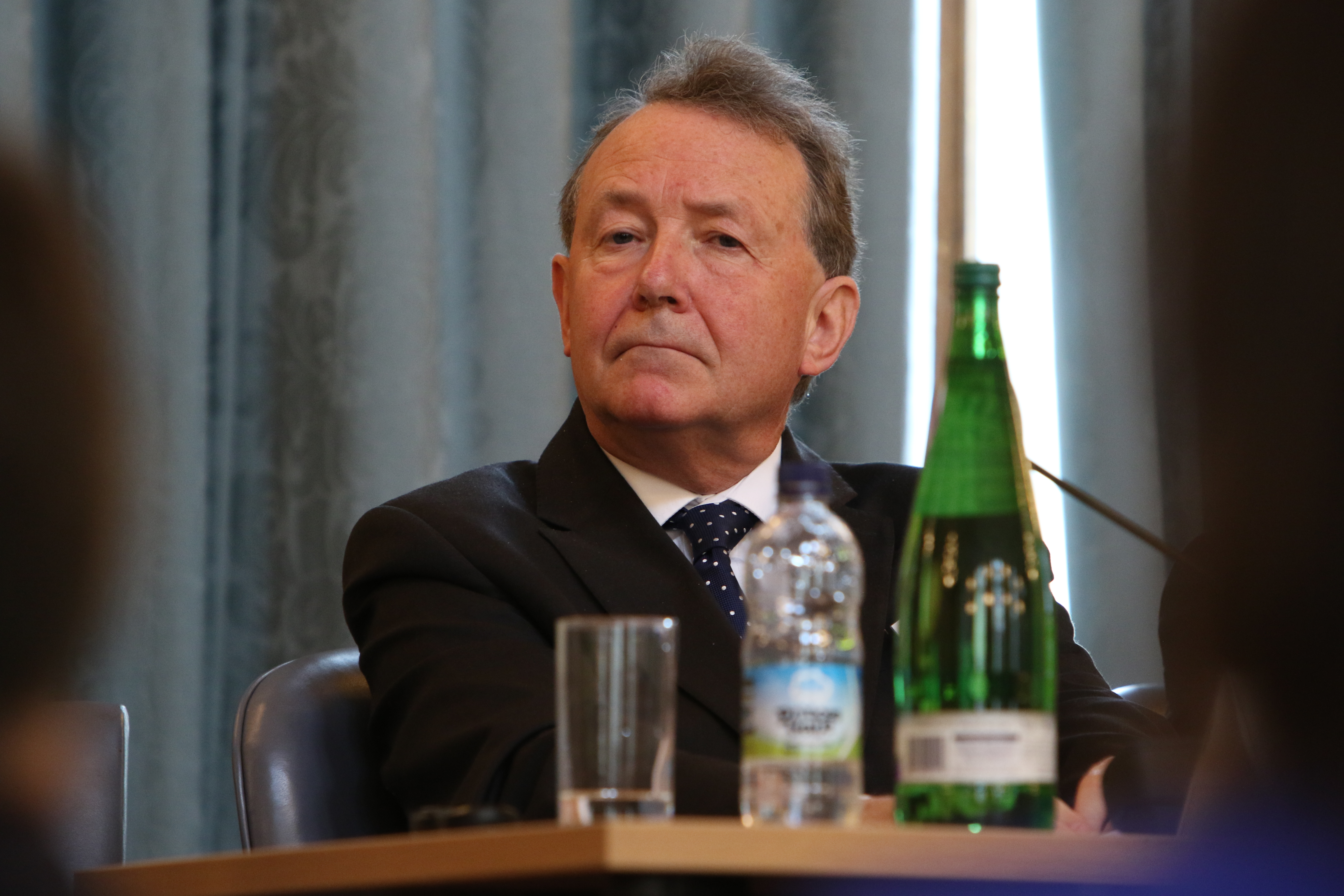 Lord David Alton at the two day summit to bring together experts to explore how freedom of religion or belief can help prevent violent extremism held at the Foreign & Commonwealth Office in London, 19 October 2016. Read more